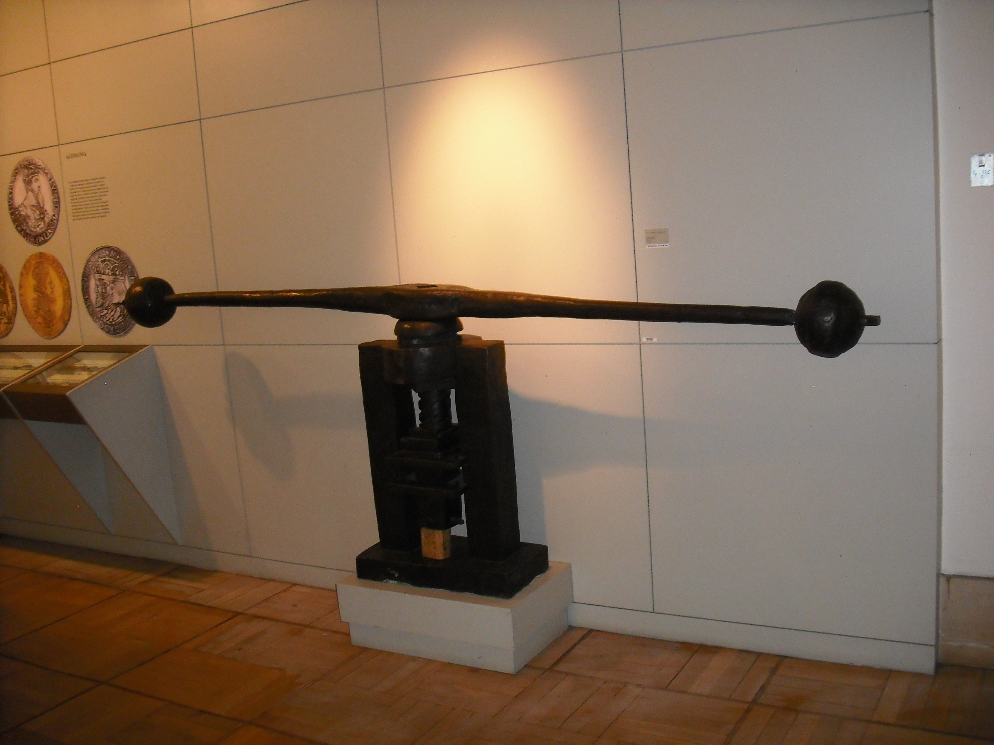 Flywheel coin minting press, copy of original Pamplona, Museum of Navara, 16th Century, on display at Museo Casa de la Moneda in Madrid